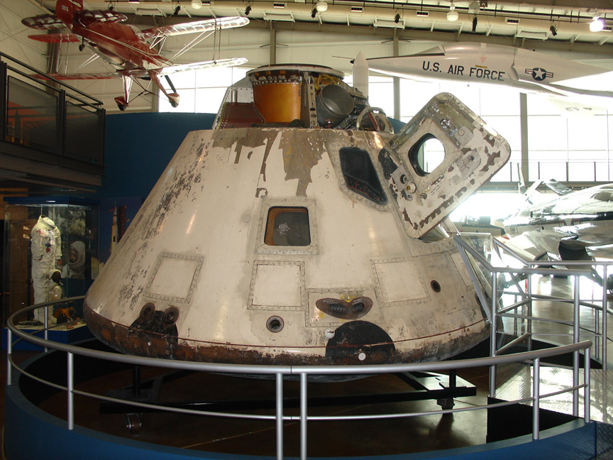 The capsule of Apollo 7 as exhibited in the Frontiers of Flight Museum. Author: Georgi Petrov